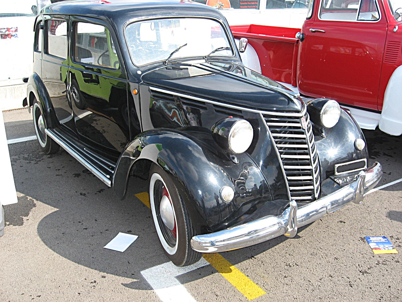 Subject: Fiat 1100 BL Date:September 14th, 2008 Event: Mostra Scambio by the Imola Circuit Place/Country: Imola (BO), Italy I release all rights in the public domain.